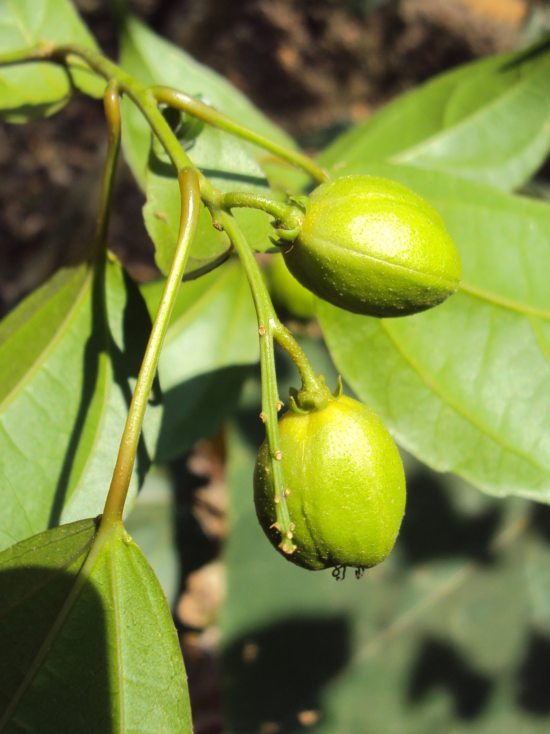 Croton tiglium